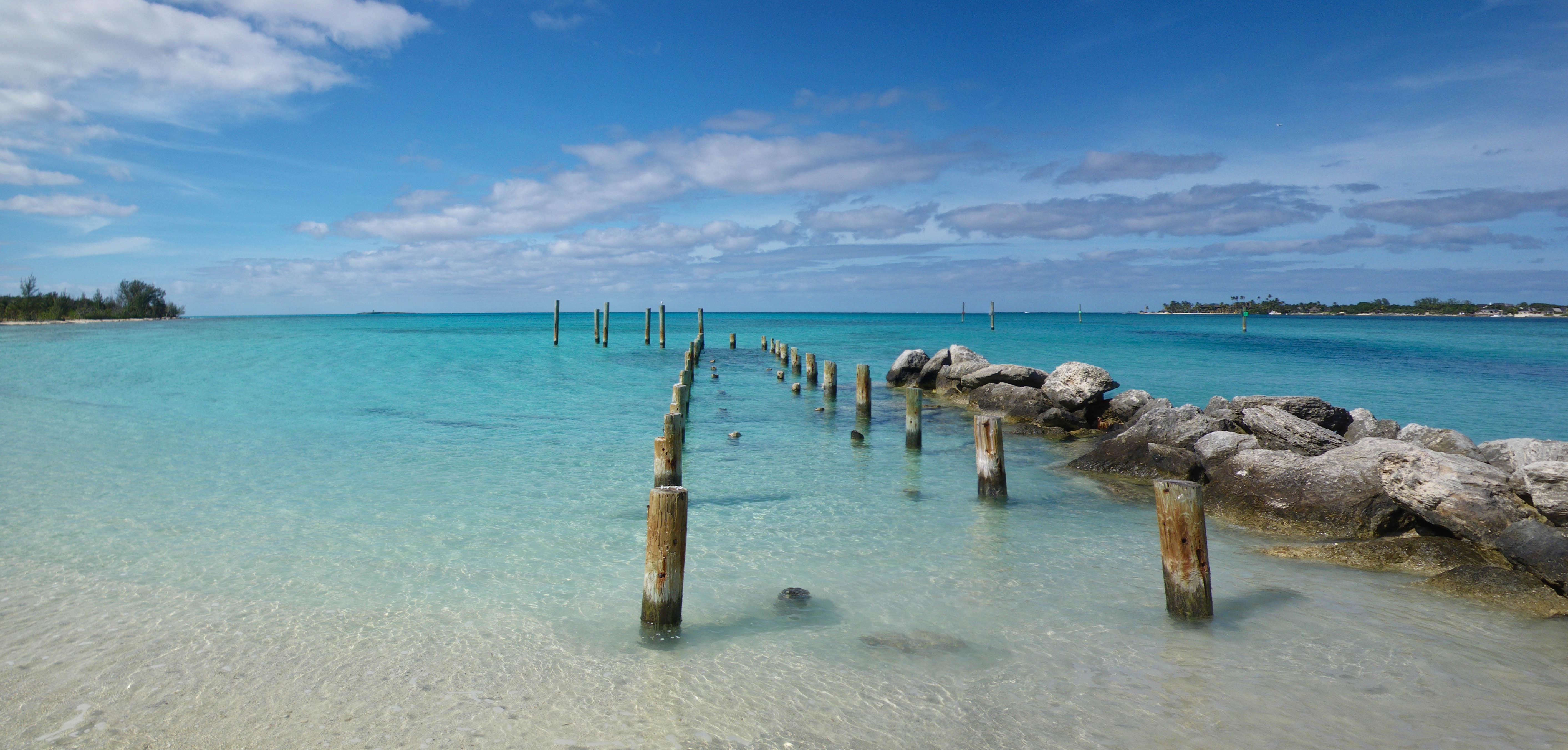 Jaws Beach on New Providence Island, in the Bahamas.